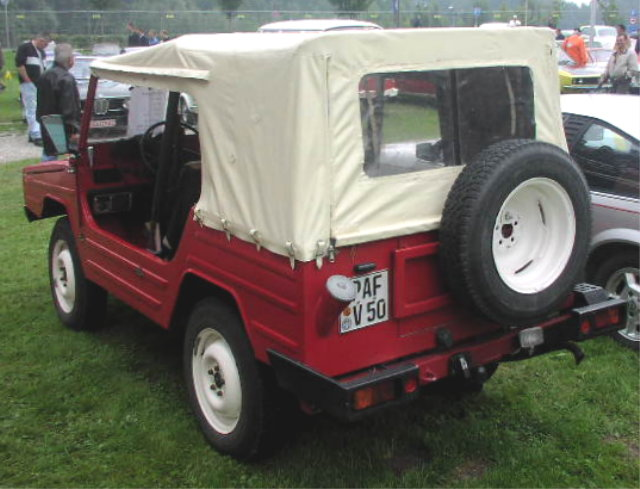 VW Iltis (with Fake-Audi-emblem)